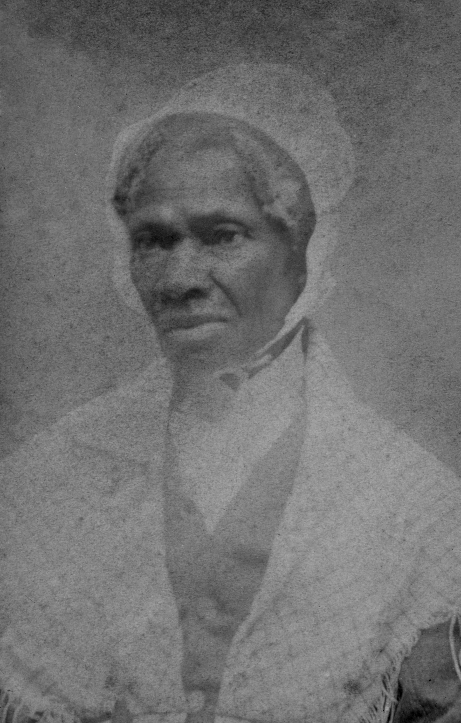 Sojourner Truth, half-length portrait; hotographic print on carte de visite mount : albumen